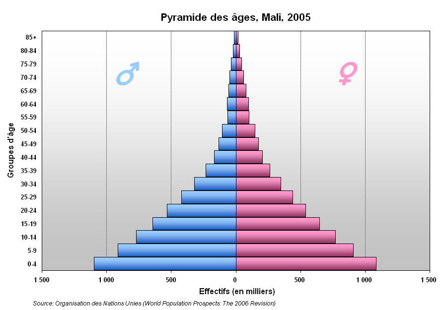 Mali Population pyramid, 2005